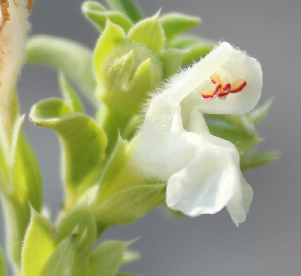 Flowers of Dracocephalum renati